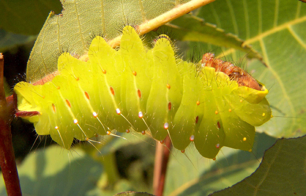 Species Antheraea polyphemus Family Saturniidae Description: jpeg image, Polyphemus moth caterpillar, Antheraea polyphemus Author: Date Created: Location: Winfield IL USA